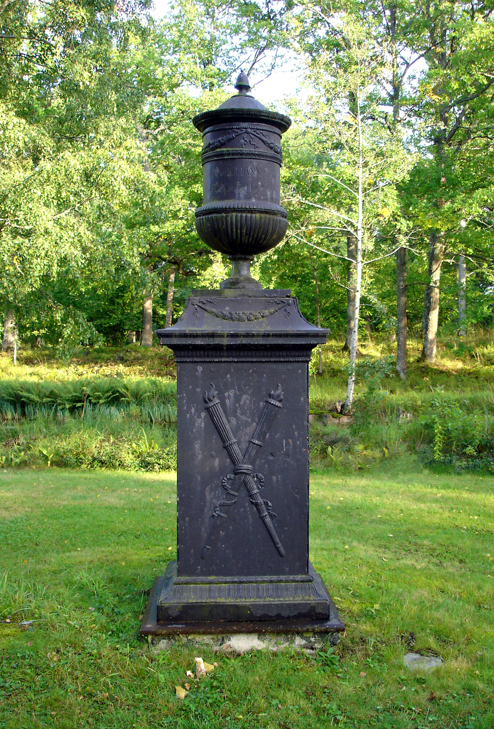 A monument to Anna Johanna Grill the elder who lived from 1720 to 1778. Made from cast iron in late Gustavian style.